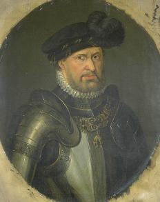 Henry V, Duke of Brunswick-Lüneburg (Latin Henricus; 10 November 1489 – 11 June 1568, Wolfenbüttel), called the Younger, was Duke of Brunswick-Wolfenbüttel from 1514 until his death. He is known for the large number of wars in which he was involved. He was the last catholic ruler in Lower Saxony